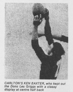 Ken Baxter marks in the 1941 VFL Preliminary Final